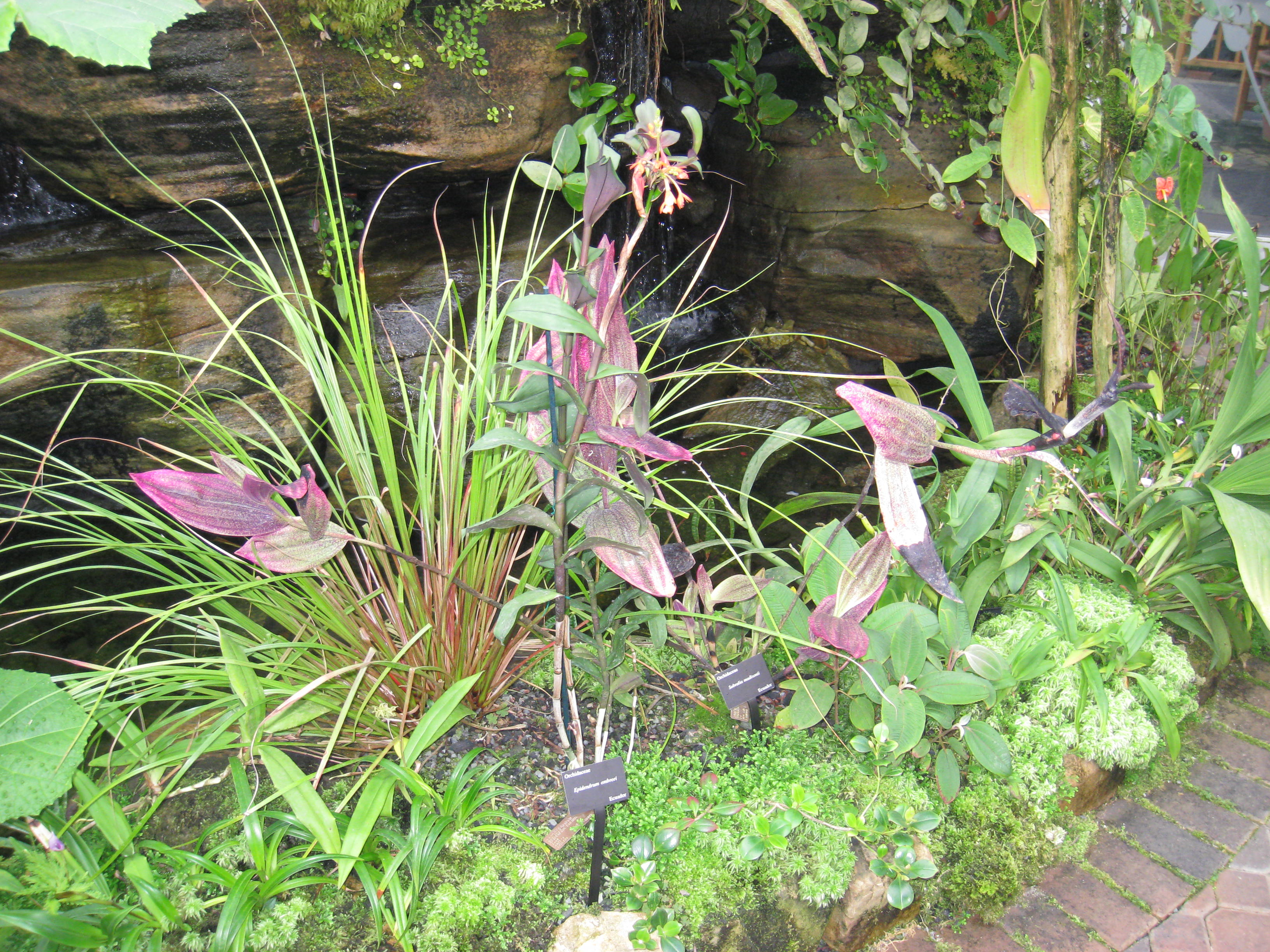 Epidendrum embreei. Specimen in the Atlanta Botanical Garden, Atlanta, Georgia, USA.